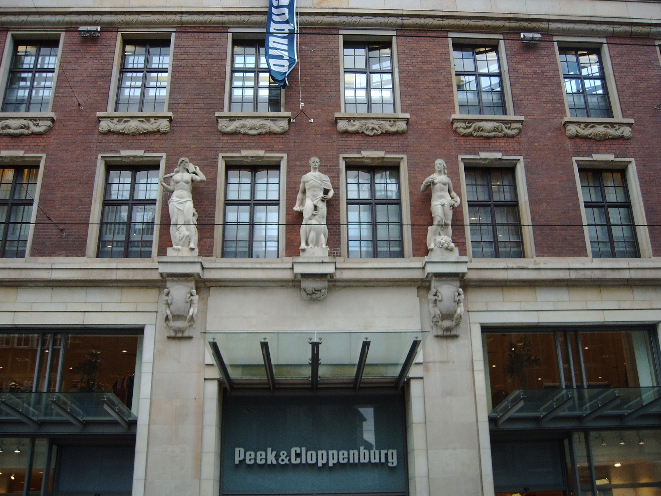 Bremen, Germany Down town